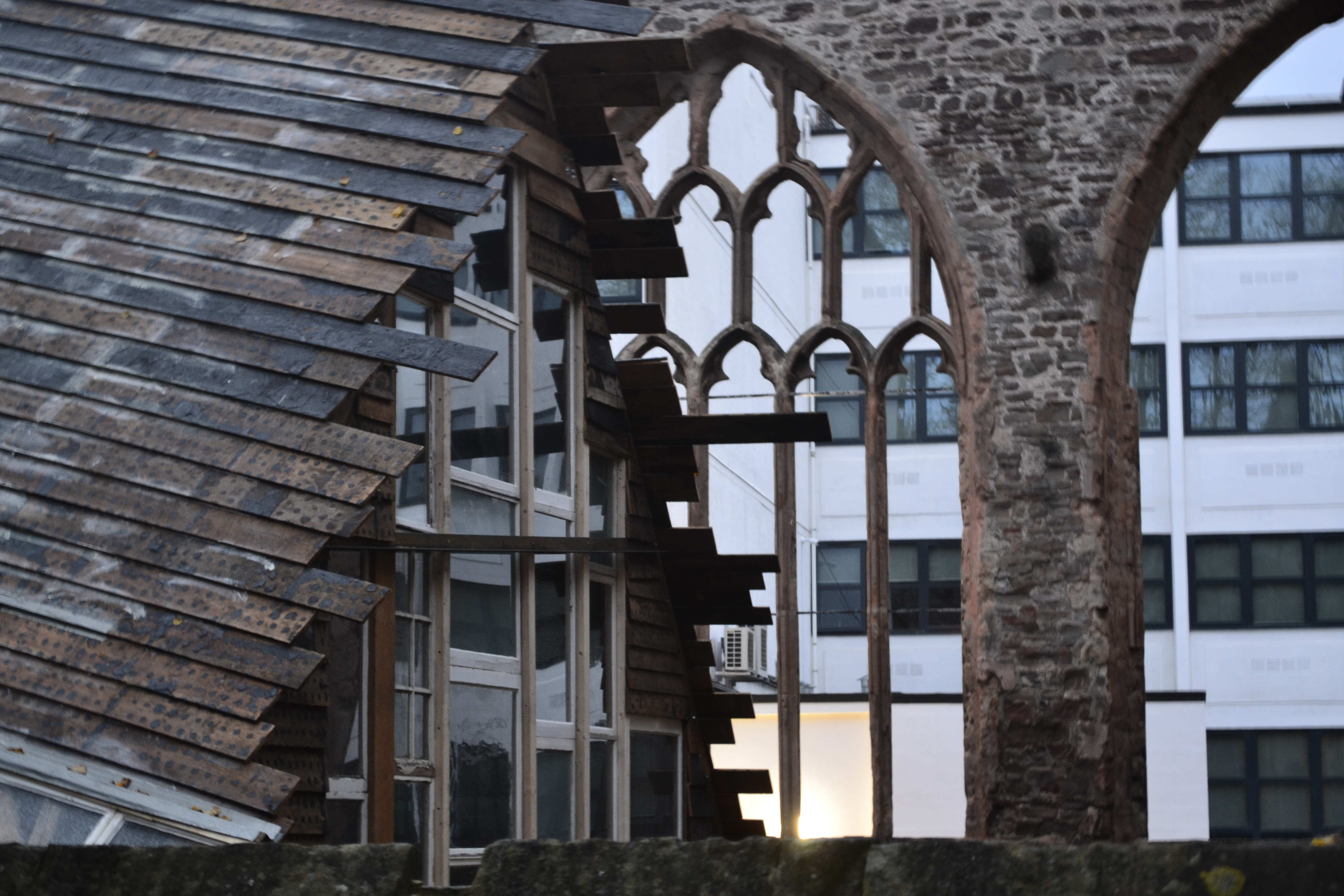 Sanctum is the temporary sound performance space devised by Theaster Gates for an exhibition in Temple Church, Bristol